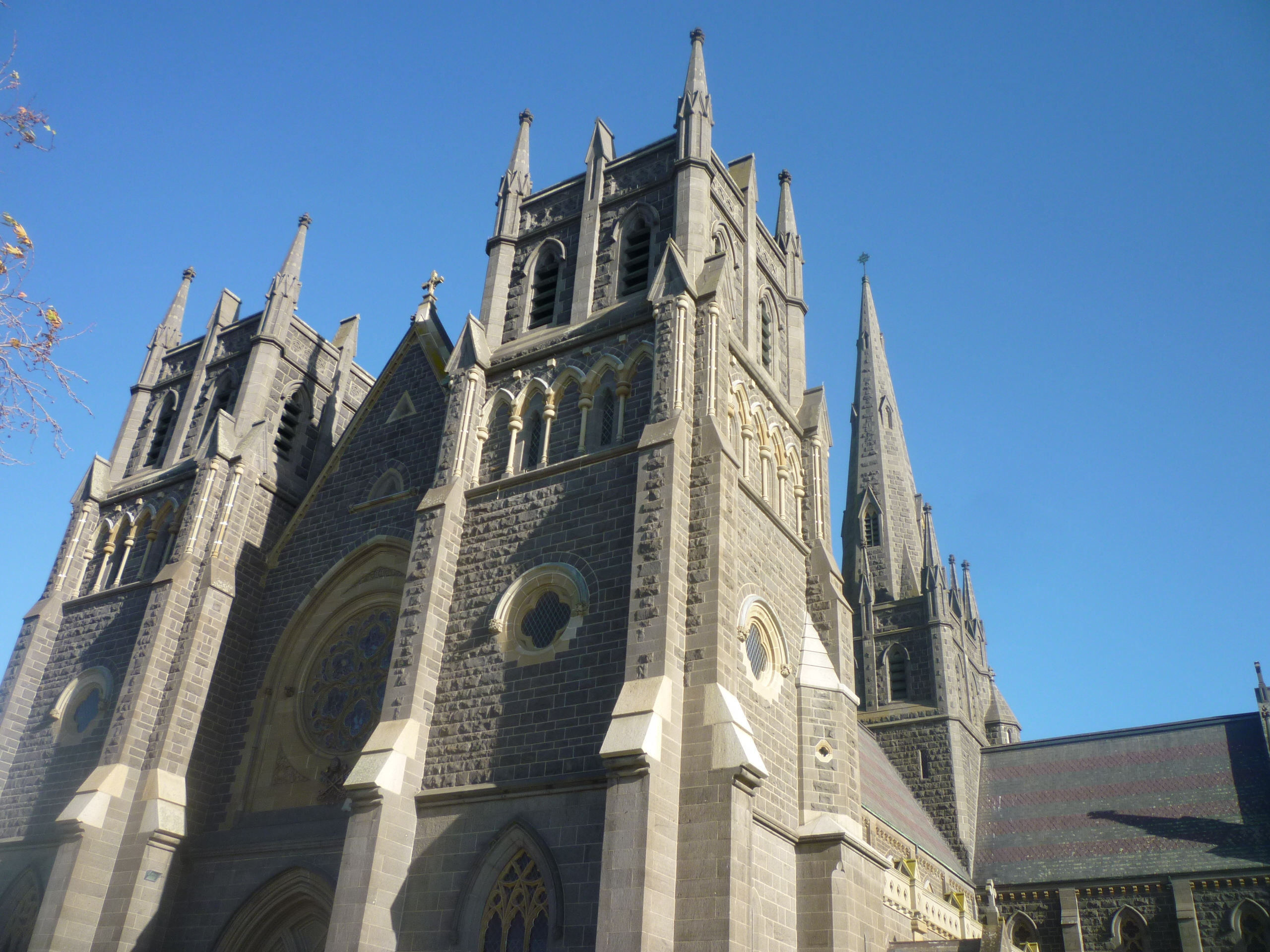 Catholic church for Geelong which, although cathedral-like, is within the Archdiocese of Melbourne (parishes from Colac to the South Australian border are within the Diocese of Ballarat). Like the early church in Melbourne, the Geelong parish was established for the early Catholic population of the region, which was virtually exclusively Irish. Analogous to the Melbourne cathedral, the current church is the third church built on the site with larger churches built to accommodate the growing Catholic population of Geelong following the Gold Rush years. Located on a site bounded by Myers Street, Yarra Street and Little Myers Street, the first church built was a temporary wooden chapel in November 1842, which was around four years after the proclamation of Geelong as a township. In 1847 a more substantial church was built to accommodate the parish's growing population which had passed 1,000 people. At the time the Geelong parish covered a large area of south-western Victoria. The Gold Rush from 1851 saw this population almost quadruple to nearly 4000, leading to plans of a larger church which took the form of the building seen today. In 1854 the foundation stone of the church was laid, and work on the building continued until 1856 when the work on the partly completed church ceased. It remained this way until the early 1870's with the church finally dedicated in 1872. At the time the spires were not yet built as per the original plans. These were not completed until the 1930's during the Great Depression, with work done between 1931 and 1937 to complete the project.